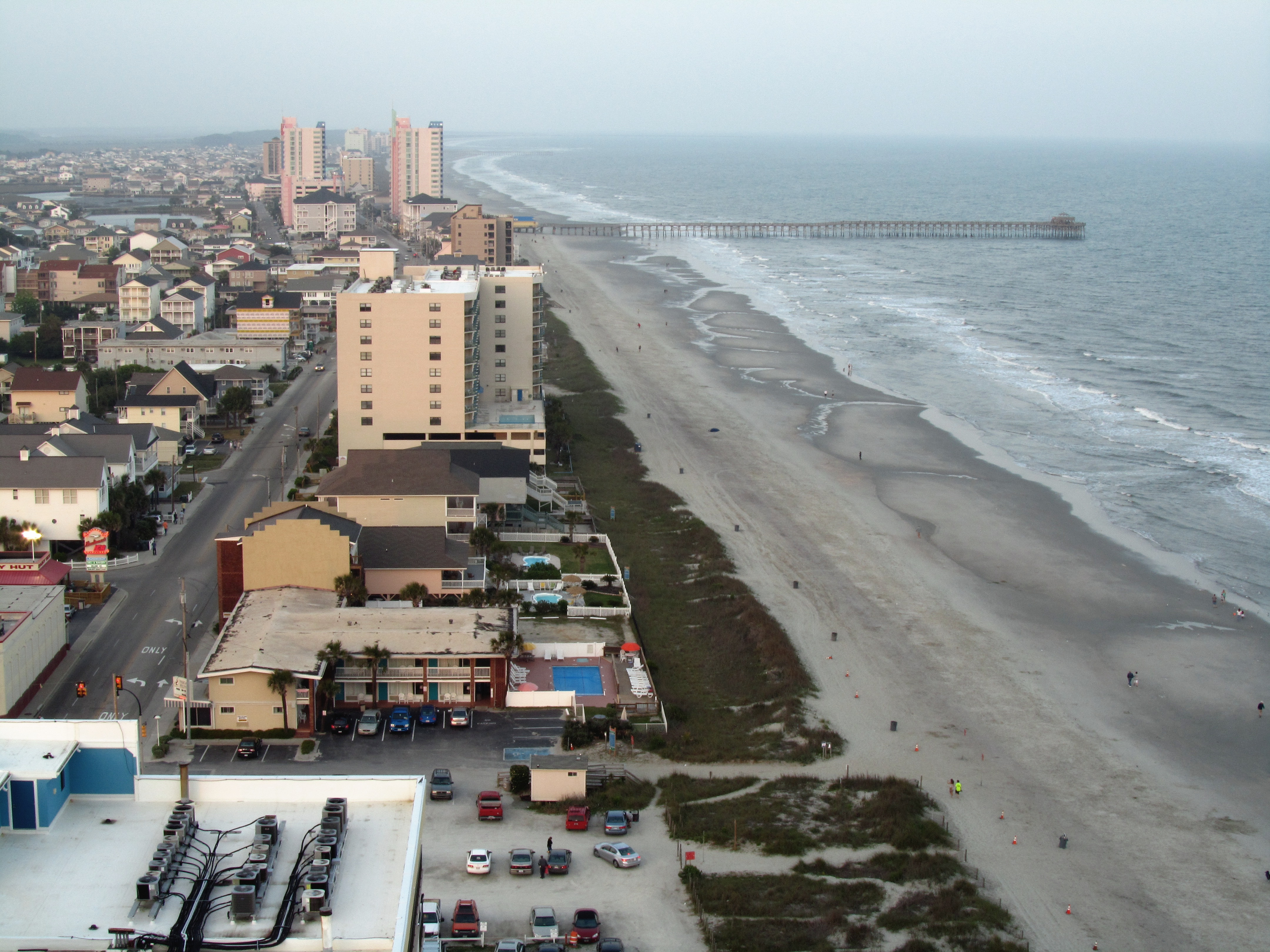 Cherry Grove Pier at Cherry Grove Beach, a neighborhood of the city of North Myrtle Beach in Horry County, South Carolina, United States.